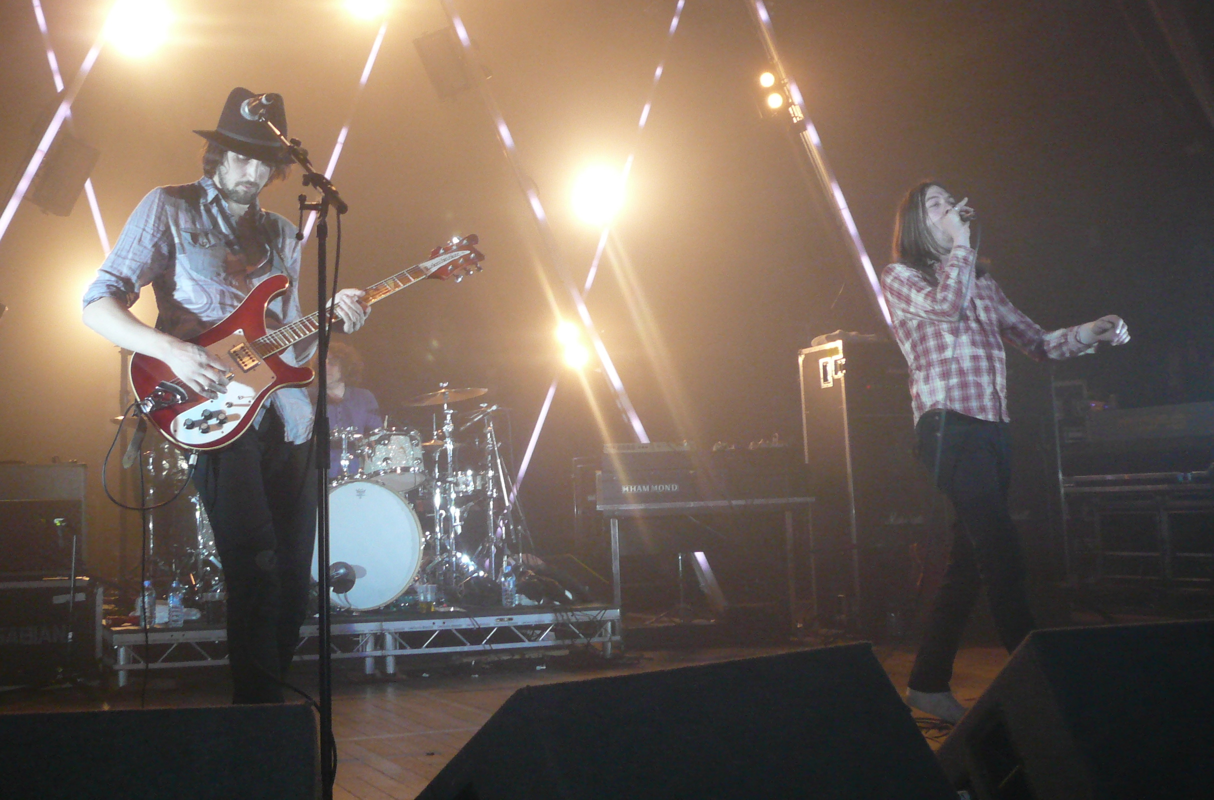 British band Kasabian live in 2009